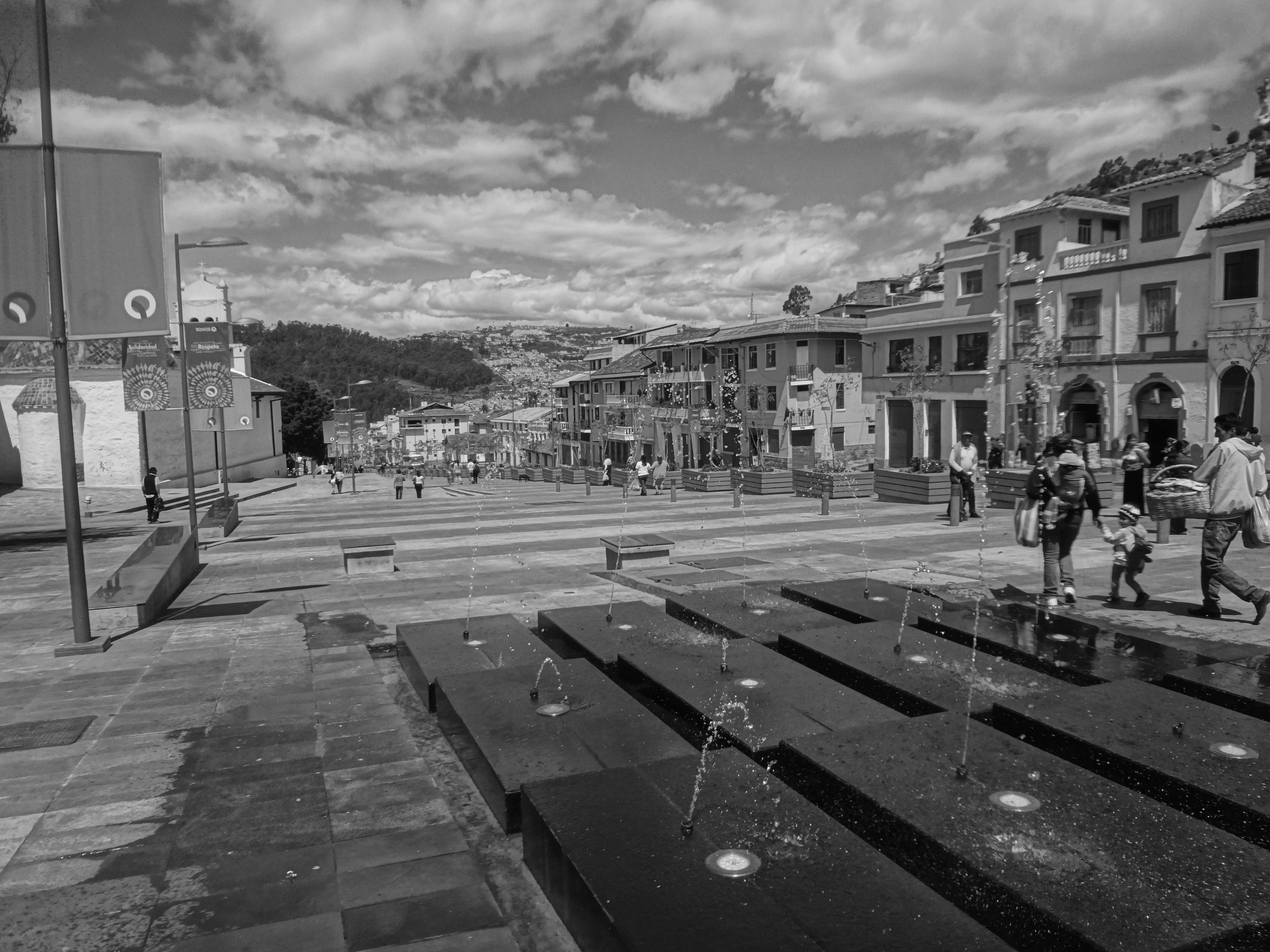 Historic Center of Quito - Fountains at Plaza 24 de Mayo - World Heritage Site by UNESCO